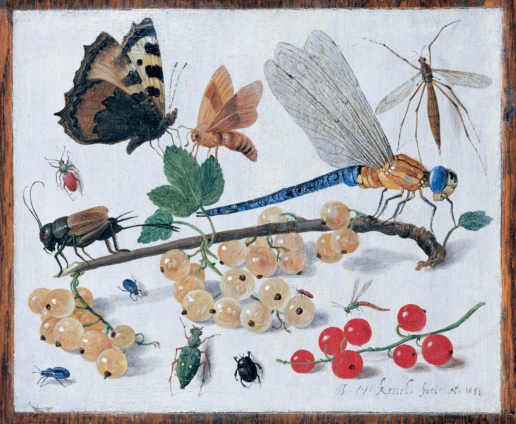 Drawings of insects